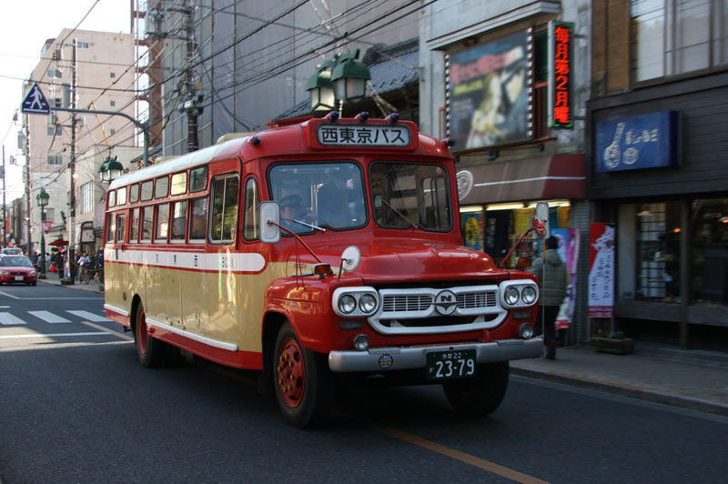 Nishi Tokyo Bus's bonnet bus (Car No.B001 / Isuzu BXD50 / Kitamura body) in Ome, Tokyo, Japan.